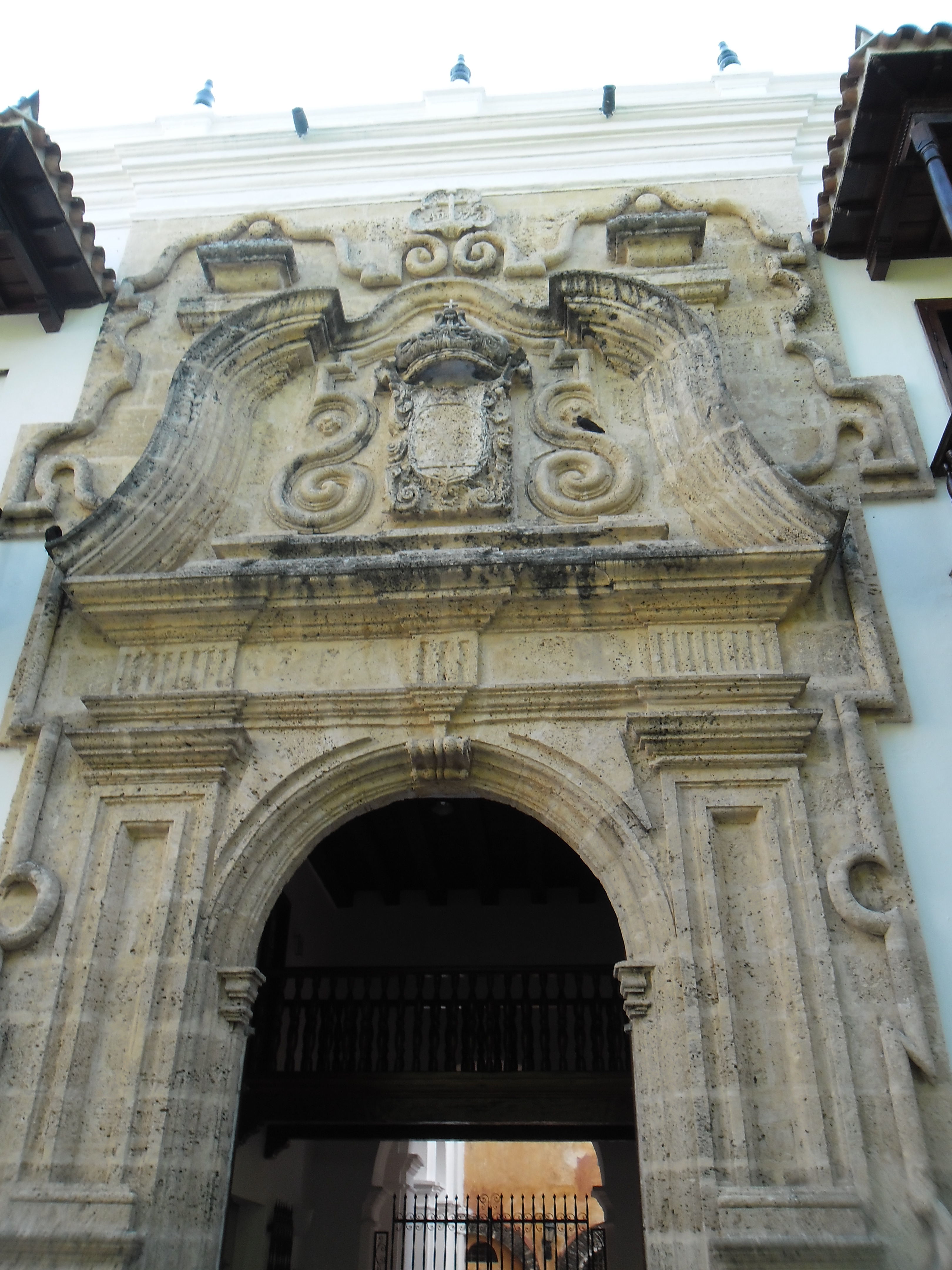 Palacio de la Inquisición Entrance.